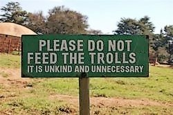 "Do not feed the Trolls" sign. Photographed in South-Africa, Troll-Park near Pretoria :-)